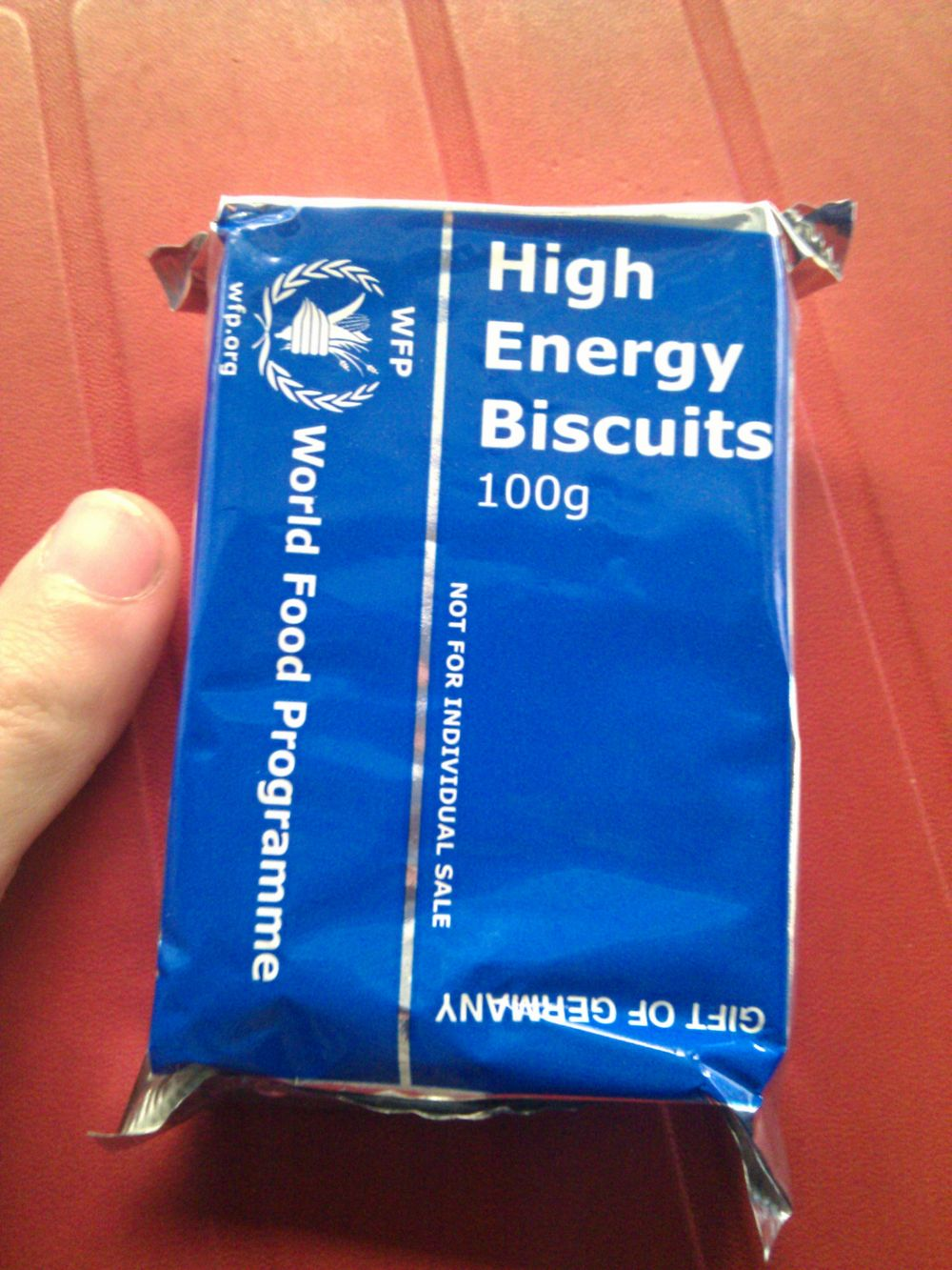 WFP - UNHRD Brindisi